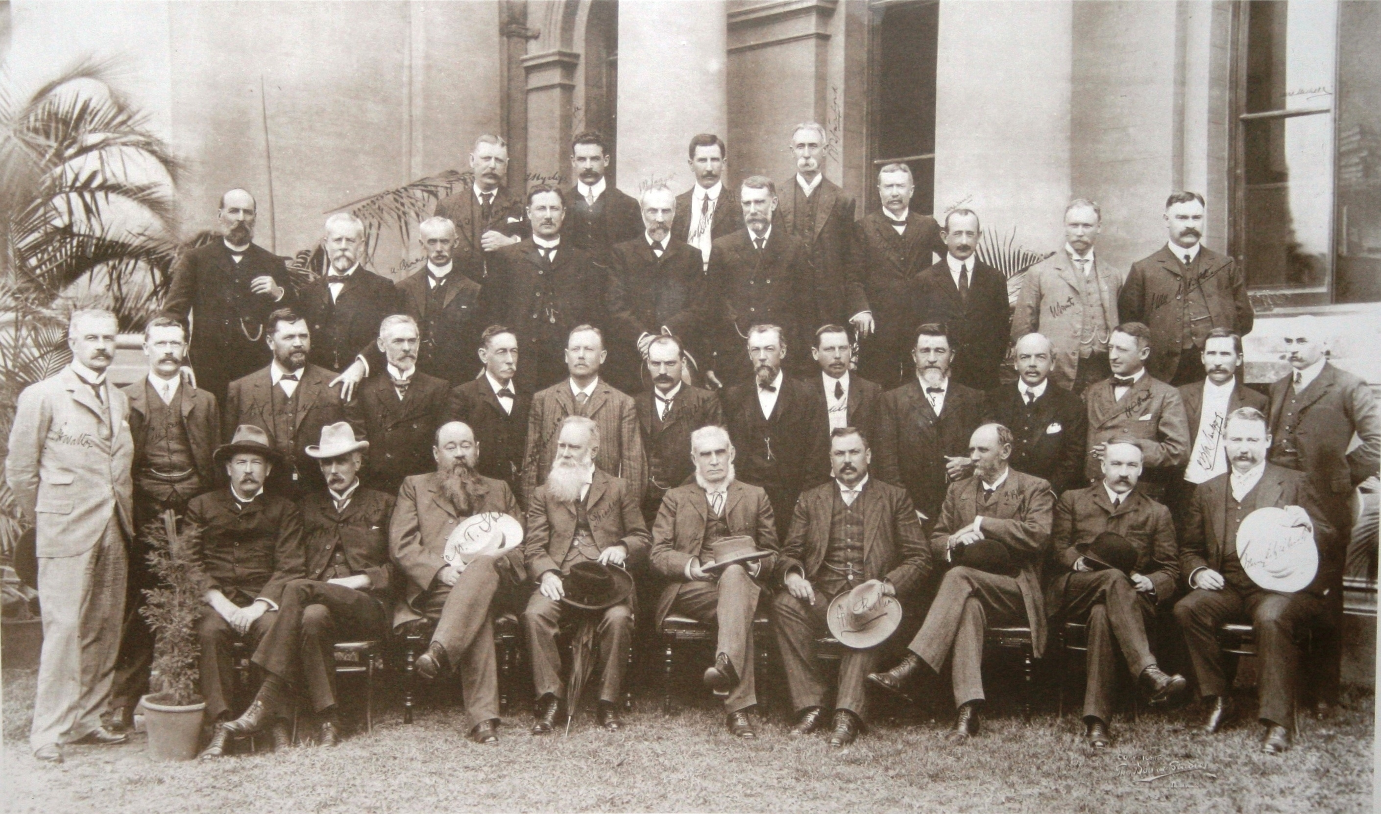 Delegates to the National Convention, photographed at their first sitting in October 1908, Durban. It convened behind closed doors until May 1909 to unify the four South African colonies under a new constitution, the South Africa Act (1909). The act was approved by the four colonial parliaments in June 1909 and passed into law by the British Parliament by September 1909.[2] The Union of South Africa was inaugurated on May 31, 1910, with Louis Botha as prime minister. This particular photo was signed by the attendees. Top Row (left to right) — Mr. G. T. Plowman, C.M.G. (Natal Secretary to Convention); Dr W. E. Bok (Private Secretary to Gen. Botha); Mr. G. R. Hofmeyr (Transvaal Secretary to Convention); Col. W. E. M. Stanford, C.B., C.M.G.; Hon. C. P. J. Coghlan. Second Row — Gen. J. H. de la Rey; Hon. W. B. Morcom, K.C.*; Hon. A. Browne, I.S.O.; Mr. T. Hyslop; Mr. J. W. Jagger; Hon. C. G. Smythe; Sir Geo. H. Farrar, D.S.O.; Hon. Gen. J. C. Smuts; Mr. A. M. N. de Villiers (O.R.C. Secretary to Convention). Third Row — Hon. E. H. Walton; Hon. Col. E. M. Greene, K.C.; Mr. H. C. van Heerden; Dr J. H. M. Beck; Mr. G. H. Maasdorp; Mr. H. L. Lindsay; Hon. F. S. Malan; Gen. S. W. Burger; Hon. Dr. T. W. Smartt; Hon. Gen. C. R. de Wet; Rt. Hon. Dr. L. S. Jameson; Hon. H. C. Hull; Hon. Gen. J. B. M. Hertzog; Mr. E. F. Kilpin (Chief Secretary to the Convention). Bottom Row — Hon. J. W. Sauer; Rt. Hon. J. X. Merriman; Hon. M. T. Steyn (Vice-President); Hon. A. Fischer; Rt. Hon. Sir J. H. de Villiers (President); Gen. the Rt. Hon. Louis Botha; Rt. Hon. F. H. Moor; His Honour Sir W. H. Milton; Sir J. P. Fitzpatrick. Mr. T. Watt took the place of Mr. Morcom (resigned). Hon. Sir Lewis Michell was absent when the photograph was taken.